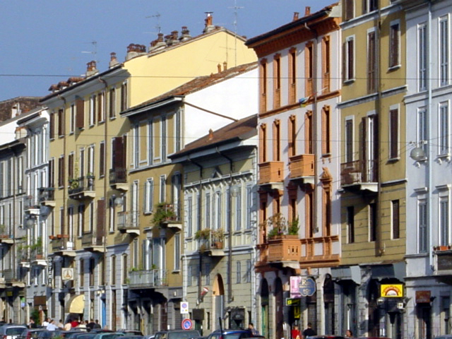 19th century building along the Naviglio Grande (Grand Canal) in Milan, Italy. Picture by Giovanni Dall'Orto, sept. 14 2003.